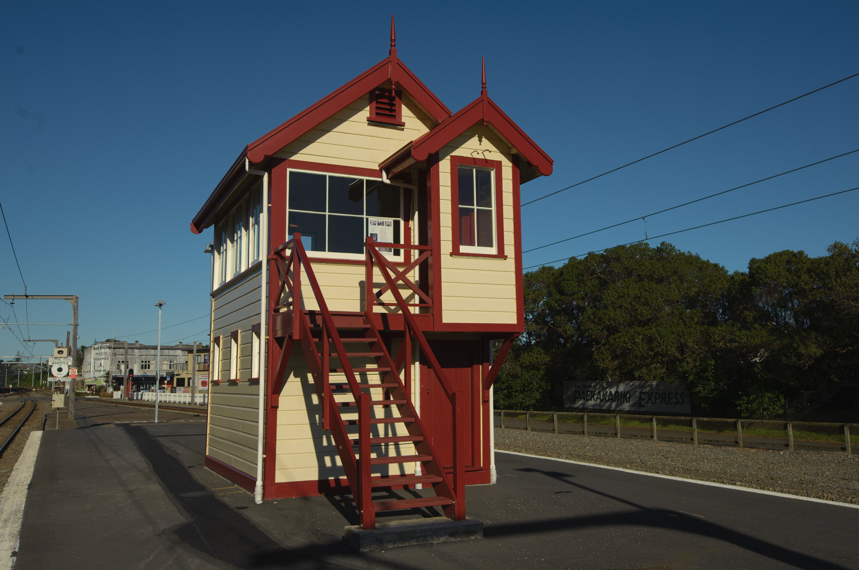 Signal House, Paekakariki Railway Station, an NZHPT classified category 1 historic building